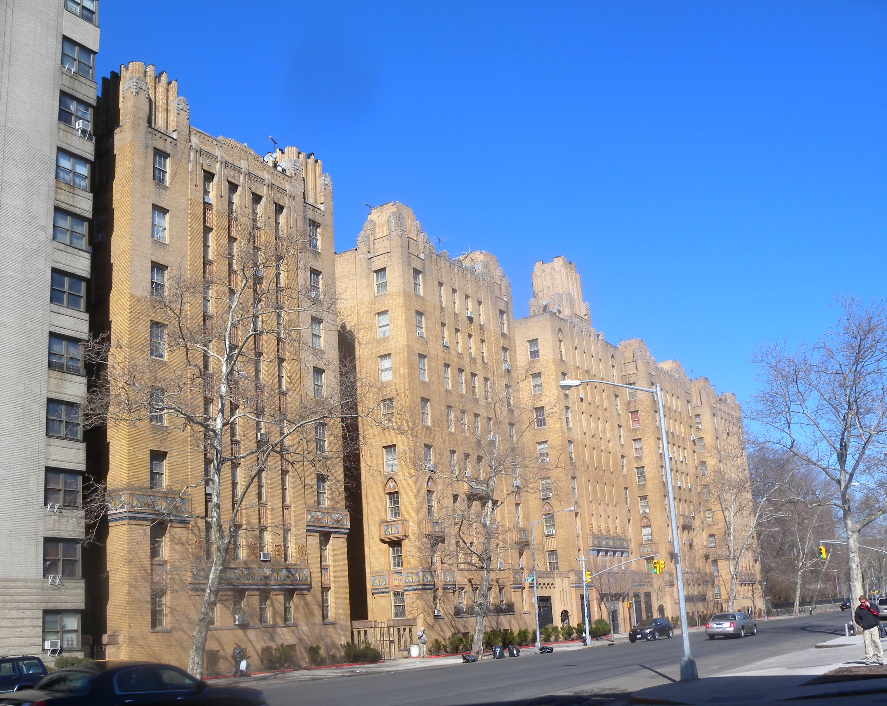 Looking north across Jerome Avenue at Park Plaza Apts on a sunny midday.